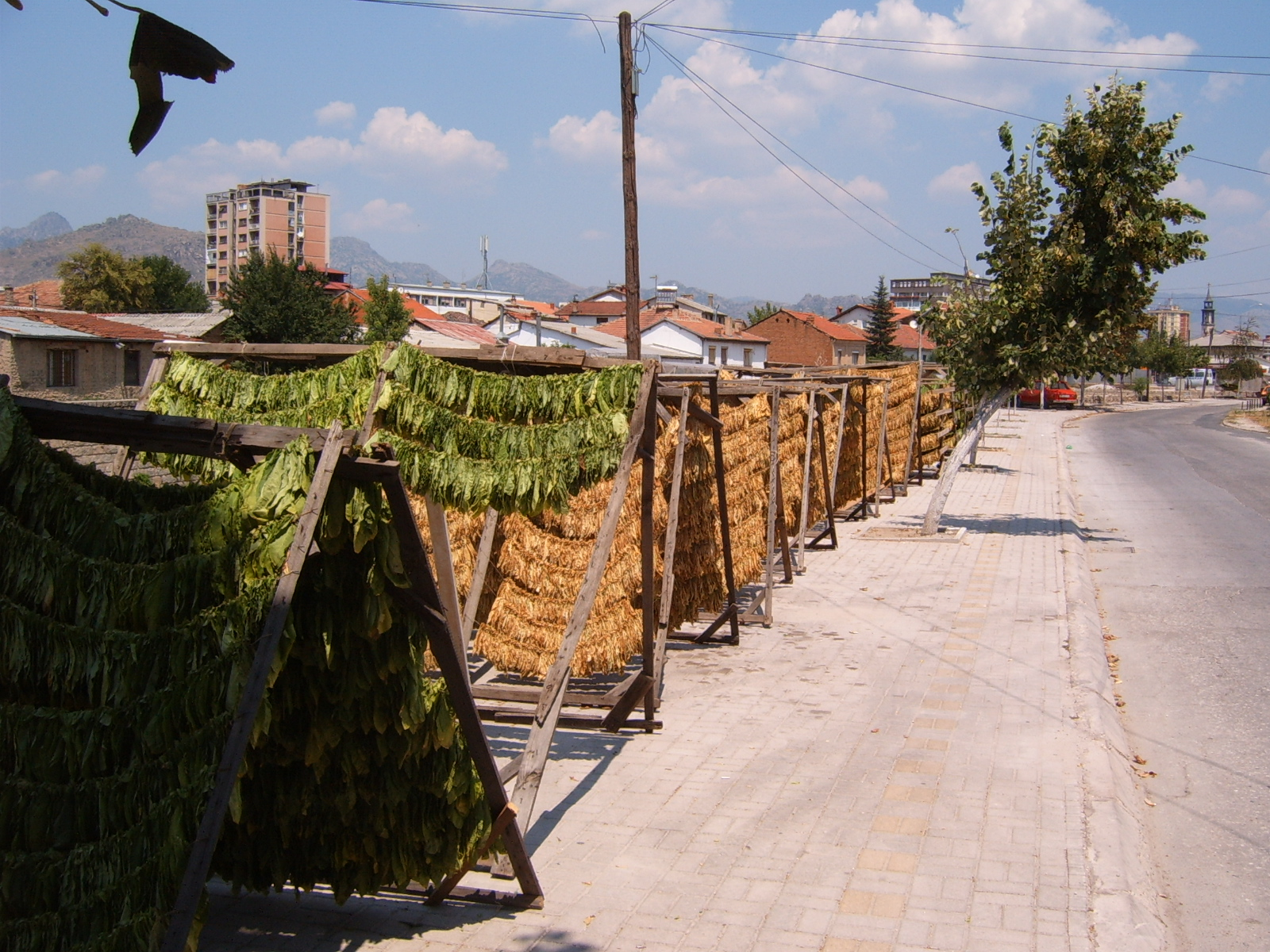 Drying of tobacco in Prilep